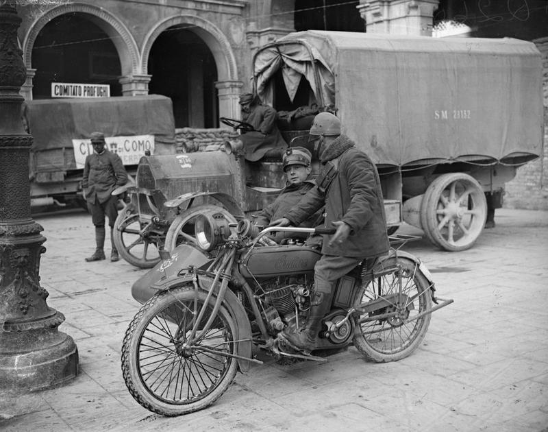 Military Motorcycles of the First World War INDIAN 999 cc twin cylinder machine fitted with a sidecar being used by two Italian army officers.